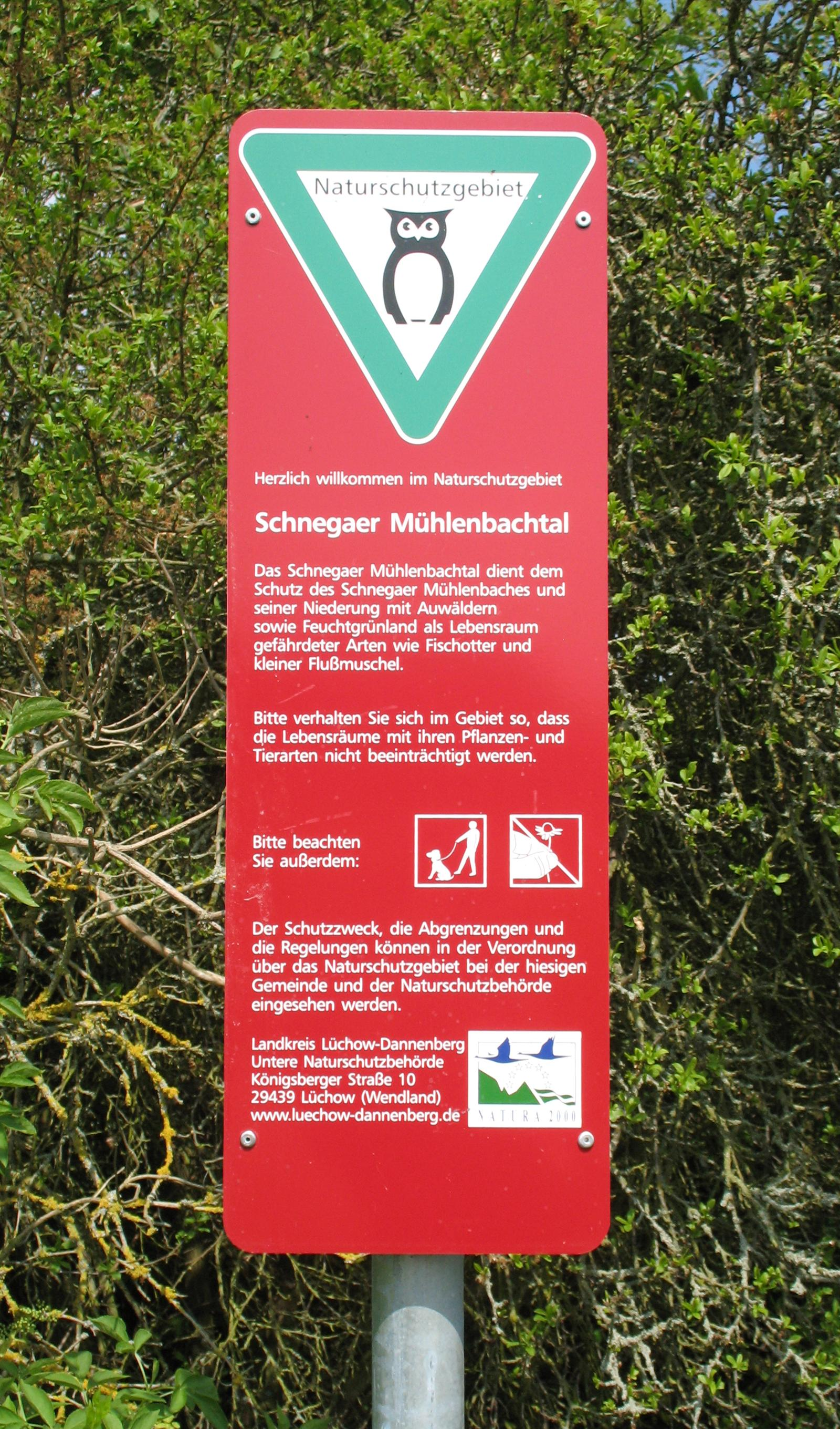 Nature reserve sign in Schnega-Gledeberg in Lower Saxony, Germany